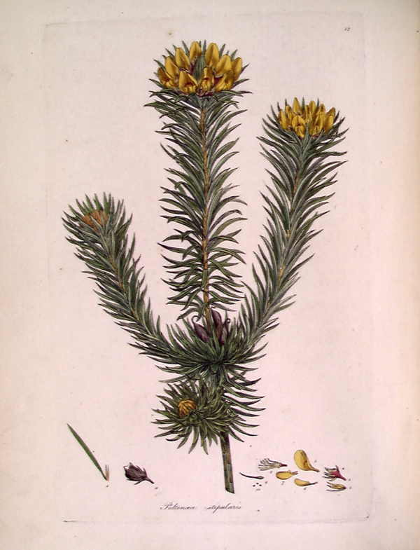 This is an image of a print of a hand coloured engraving by James Sowerby (1757-1822), based on drawing nominally by John White but probably by the convict artist Thomas Watling. It appeared as Tab. XII in James Edward Smith's 1793 A Specimen of the Botany of New Holland. The plant depicted is Pultenaea stipularis. The accompanying text explains the figure thus: 1. A Leaf with its stipula. 2. Floral leaf and the stipula which accompanies it. 3. Calyx. 4. Its appendages. 5. Standard. 6. A Wing. 7. Keel. 8. Stamina and Pistillum. 9. Pistillum alone. 10. Rudiments of Seeds. 11. Pod inverted with the permanent calyx.